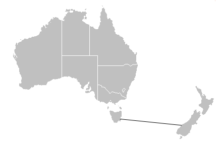 Tasman Solo, last expedition of Andrew McAuley